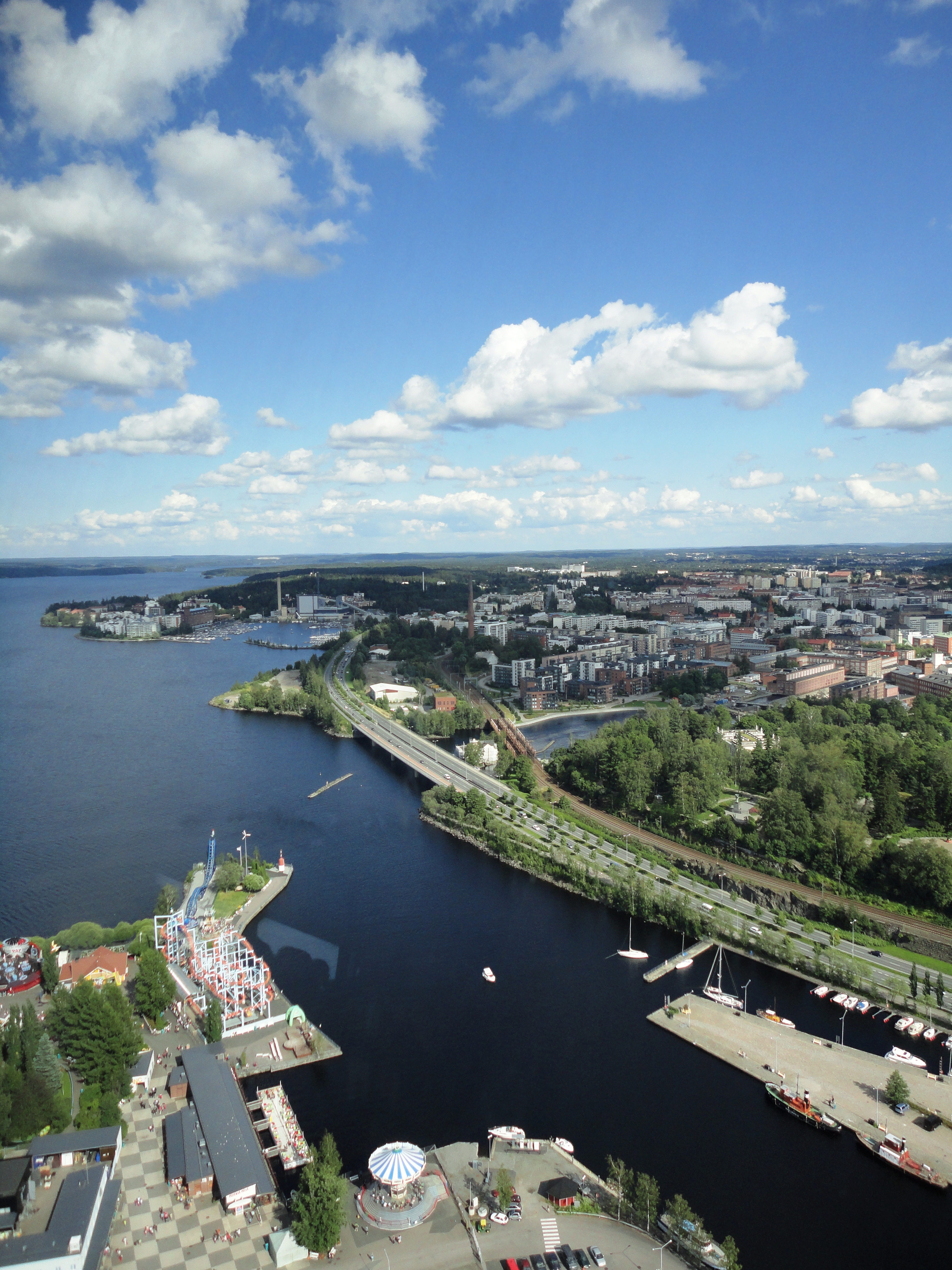 Särkänniemi and Tampere seen from Näsinneula - August 2012